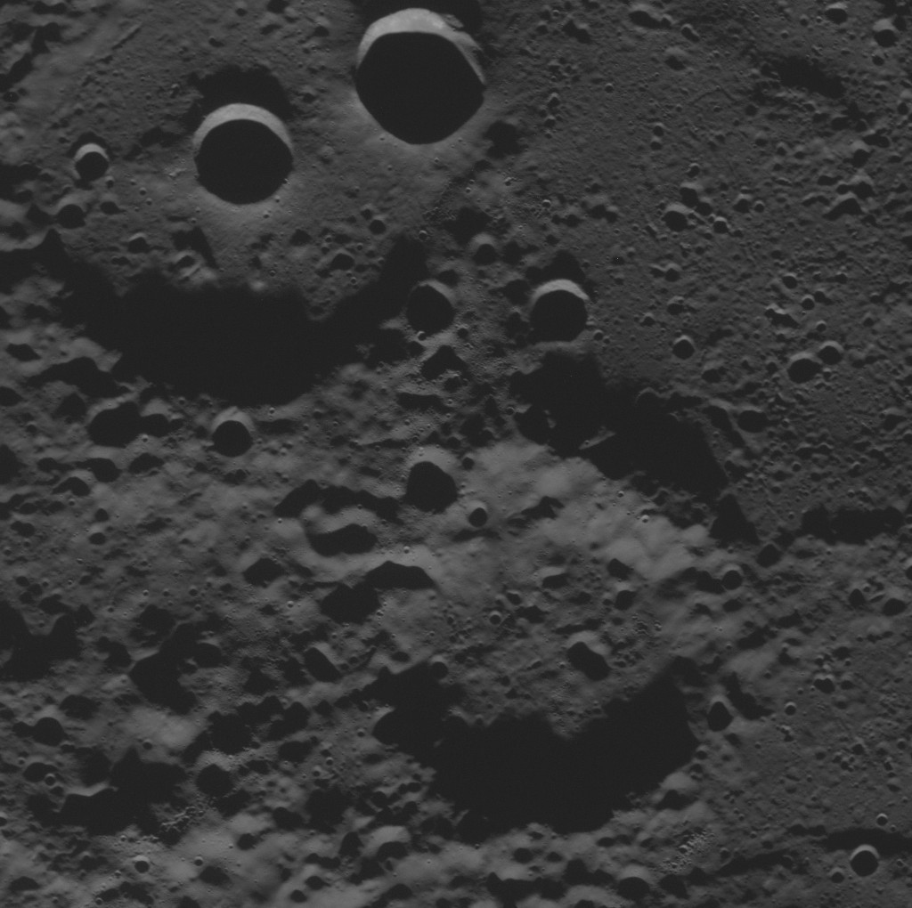 Josetsu crater (bottom) and Bunin crater (upper left) on Mercury. MESSENGER Wide Angle Camera image. North is at top. Width is approximately 78.4 km at bottom. Emission Angle: 10.8 Incidence Angle: 84.3 Latitude: 84.2 Longitude: 218.6 Phase Angle: 84.4